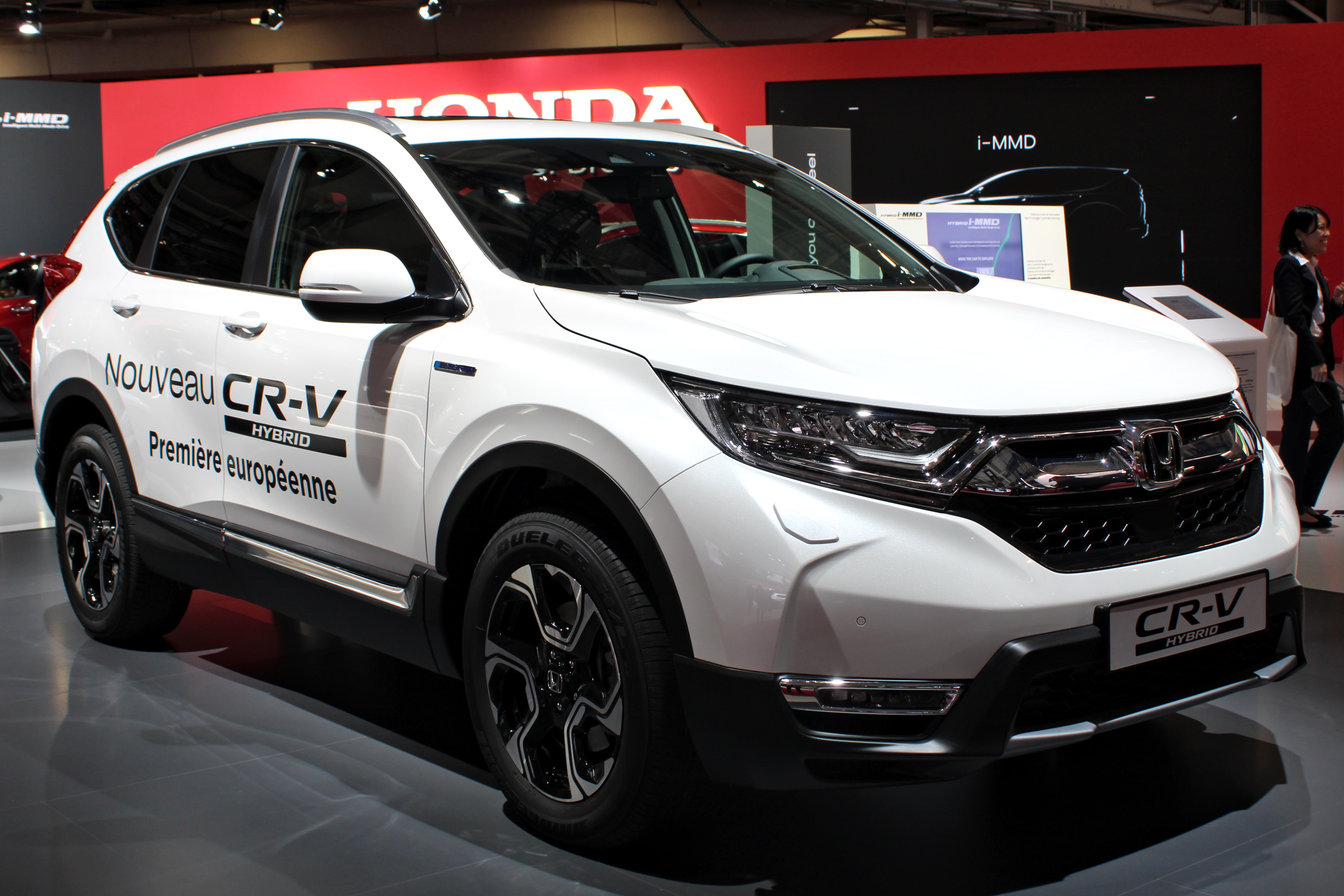 Honda CR-V Hybrid at Paris Motor Show 2018